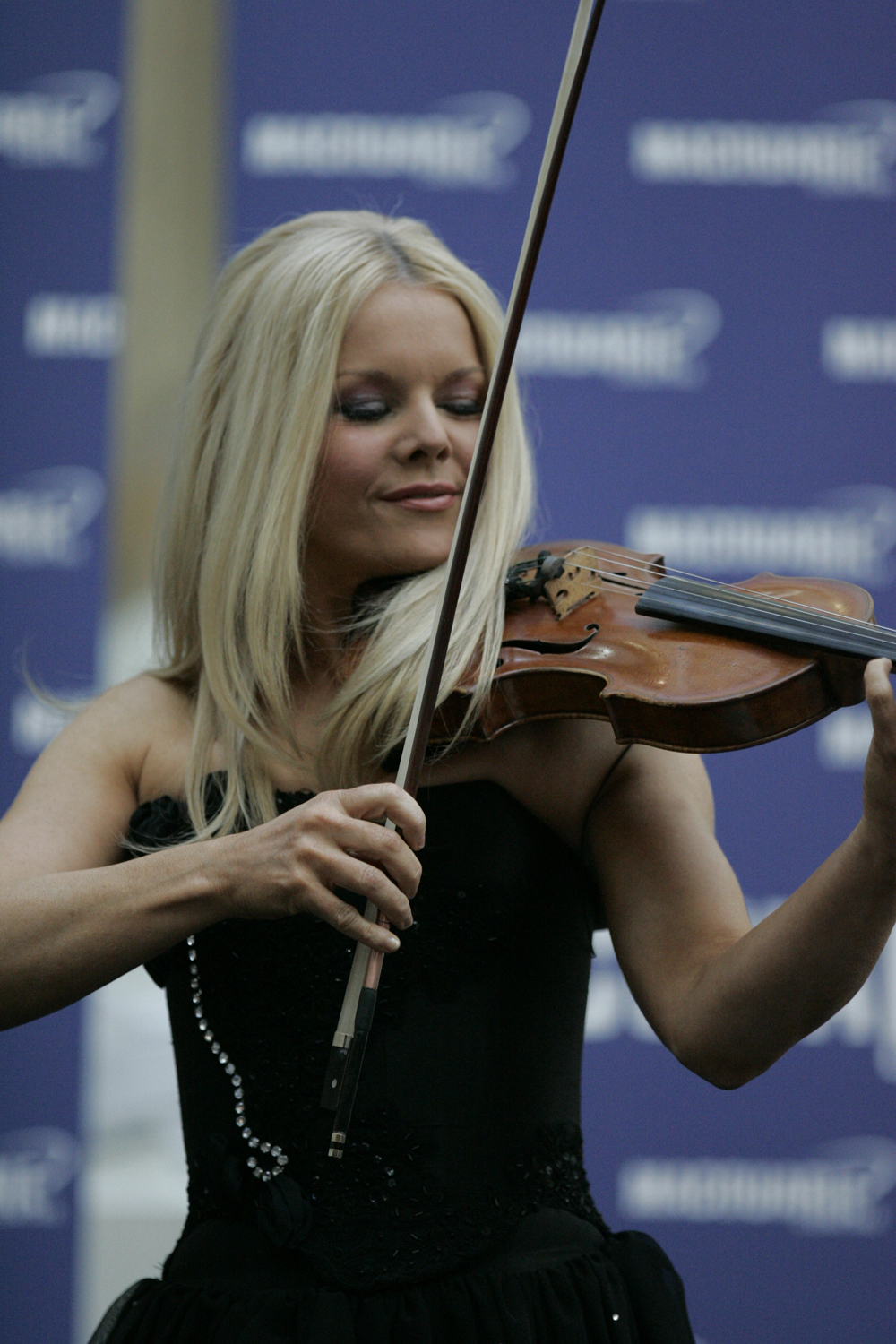 Mairead Nesbitt of Celtic Woman performs at Macquarie Shopping Centre, Sydney